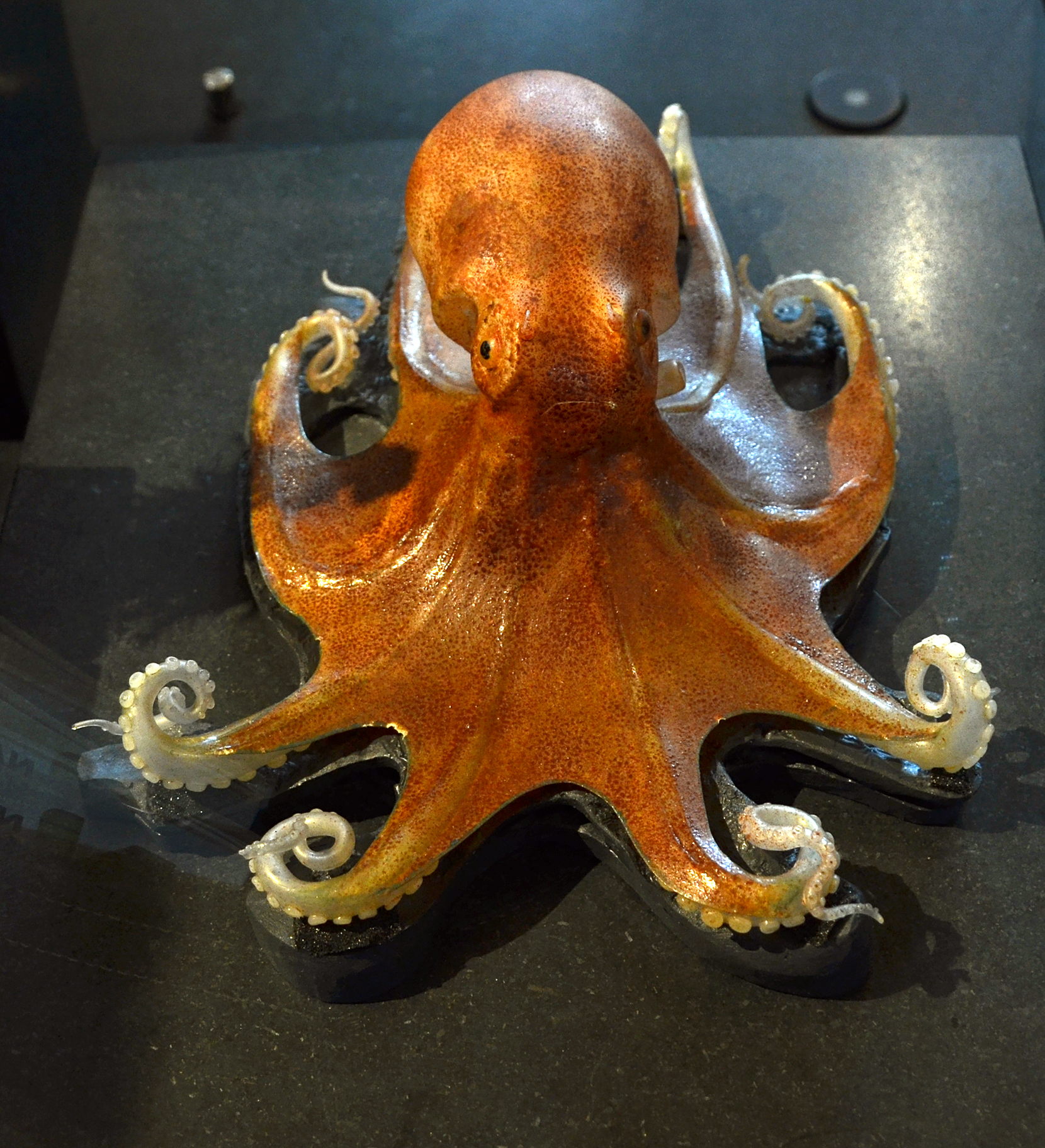 Glass model of an octopus, by Leopold and Rudolf Blaschka, now exposed in the Natural History Museum of London.